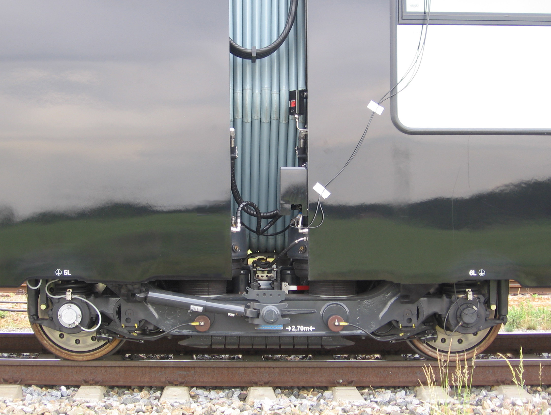 LE 480.001 trailer